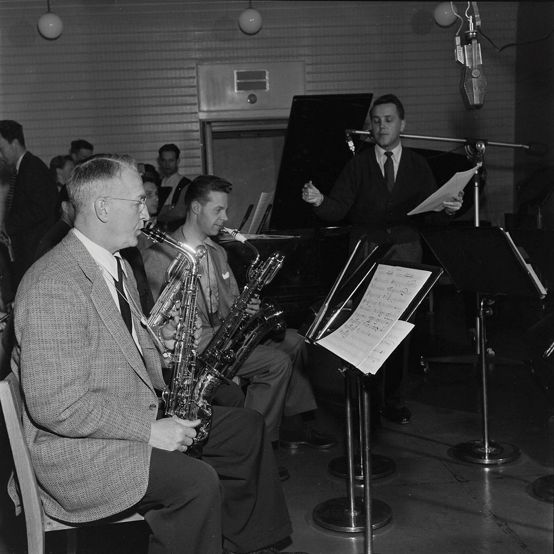 Yngvar Wang on sax, and Egil Monn-Iversen conducting.